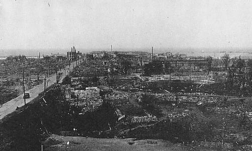 Nemuro after the 1945 air raid